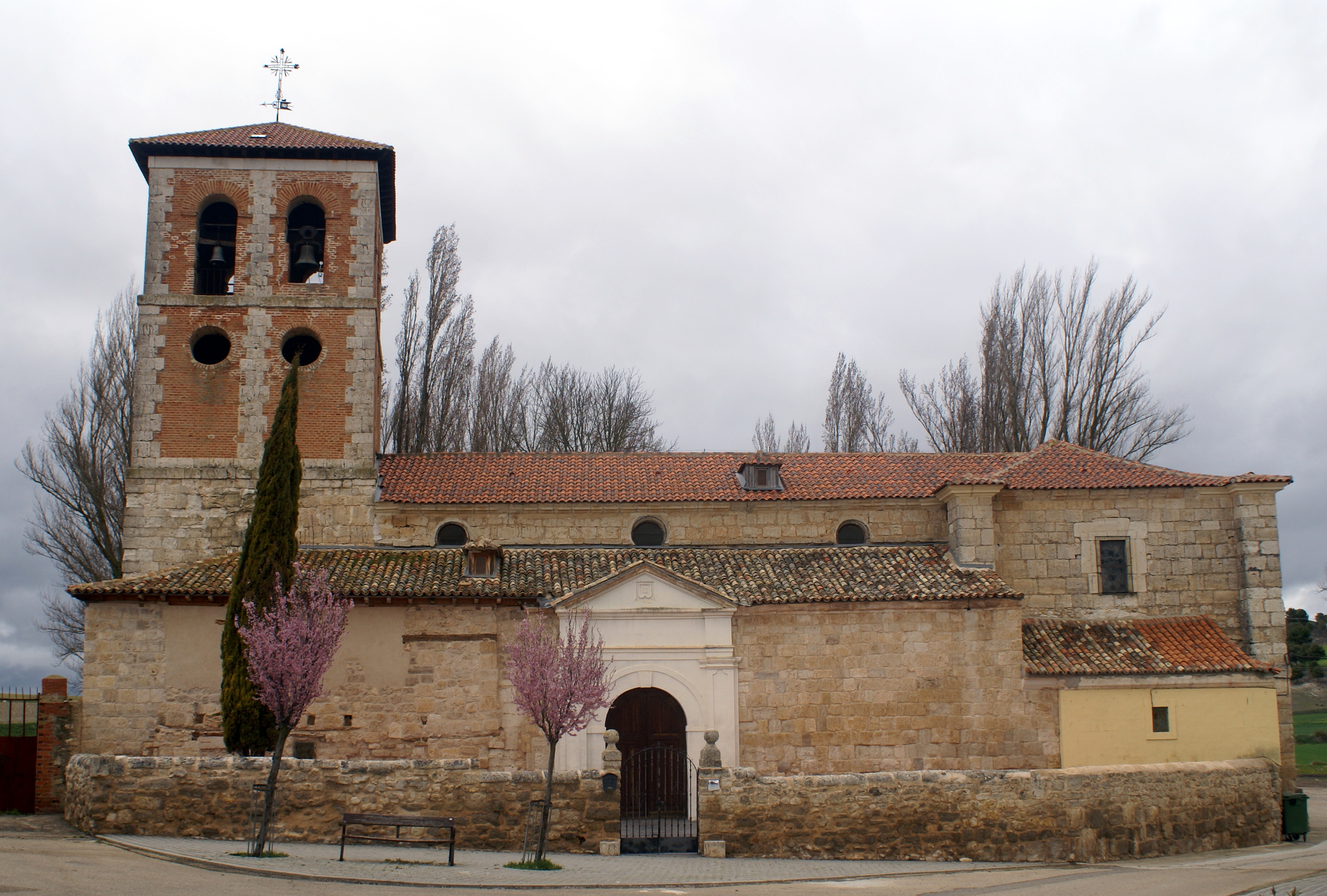 Church of Corcos del Valle, Valladolid, Spain.